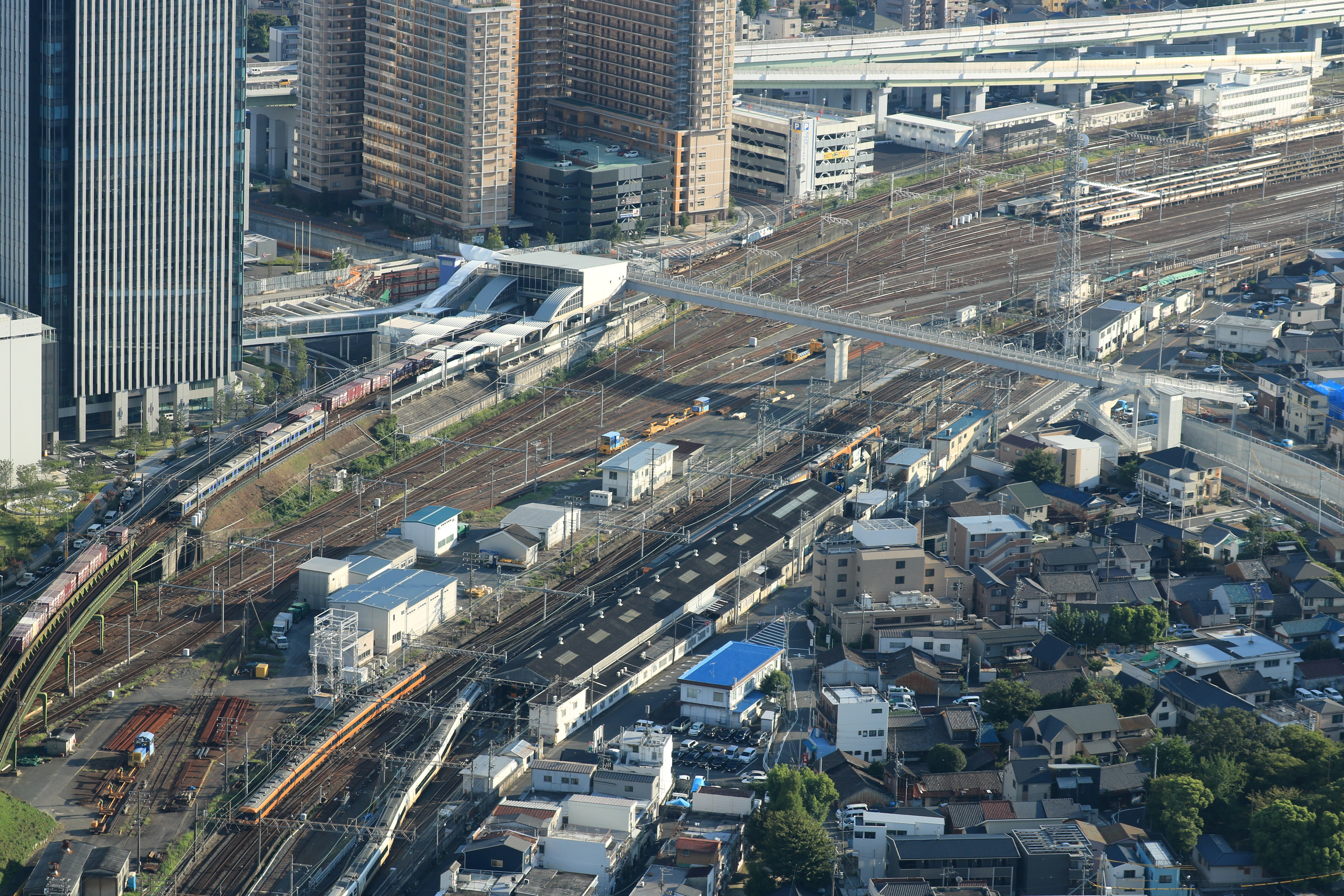 Sasashima-raibu Station and Sasashimakomeno Footbridge seen from Midland Square in Nakamura-ku, Nagoya, Aichi prefecture, Japan.